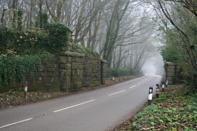 The railway used to run here This stonework on either side of the road is all that remains of a bridge which used to carry the Helston Branch Line over the road. Passenger services were stopped in 1962 and the line finally closed in 1964 as part of the Beeching cuts.